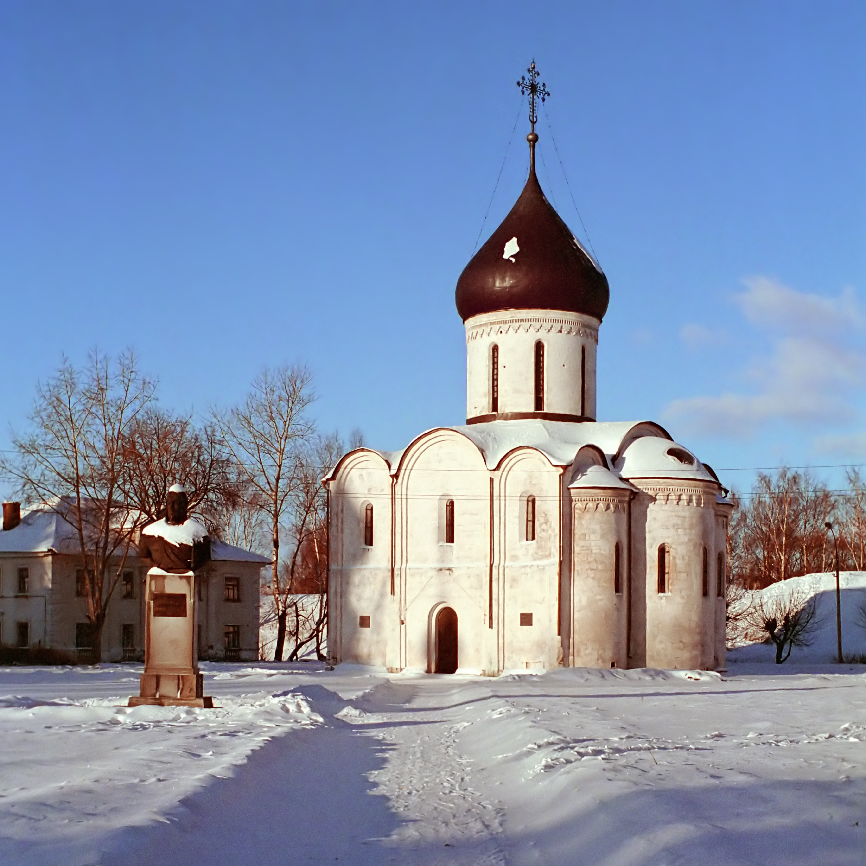 Transfiguration Cathedral in Pereslavl. Pereslavl-Zalessky, Red square.